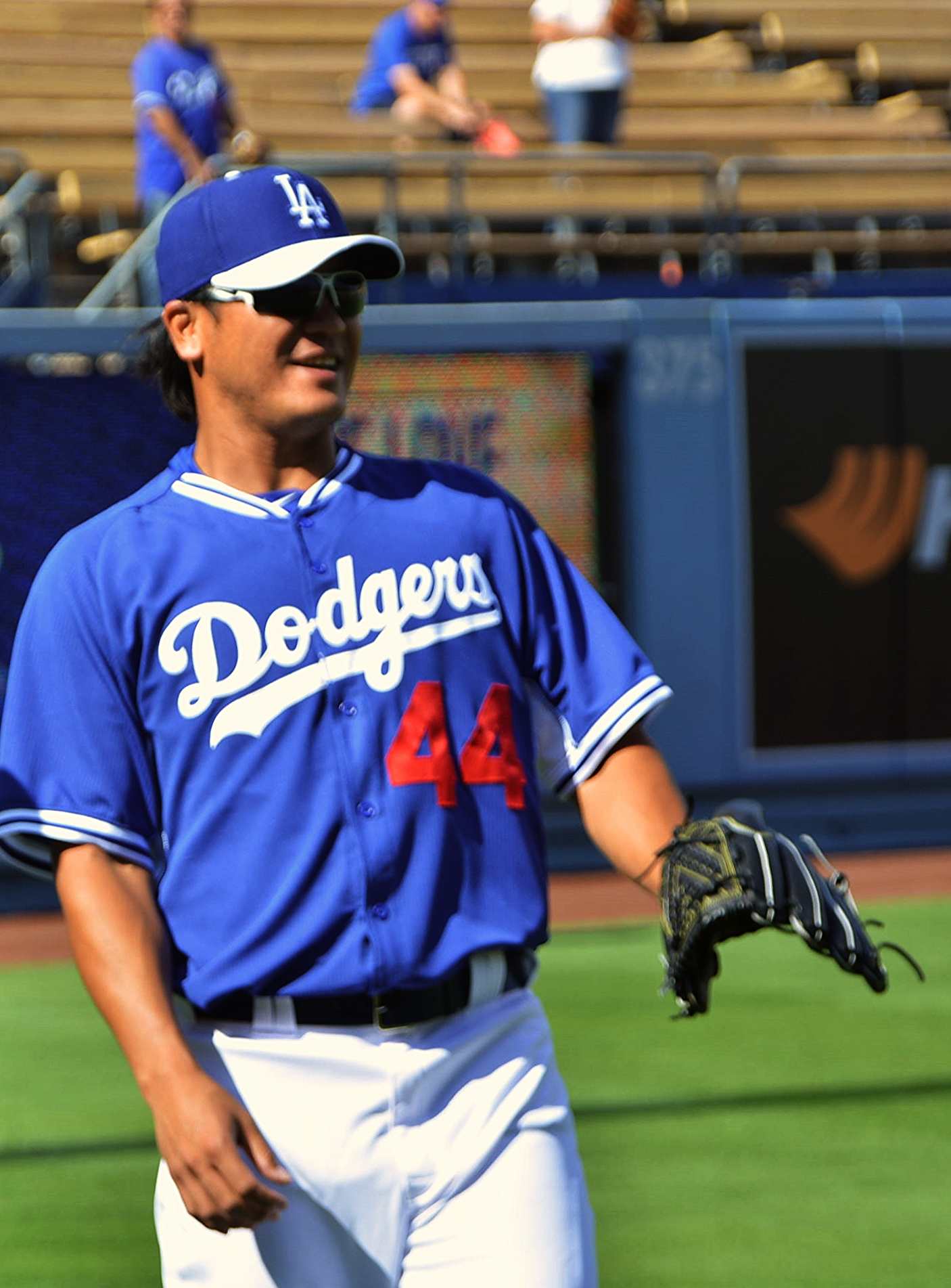 Chin-Hui Tsao practicing before the game in 2015